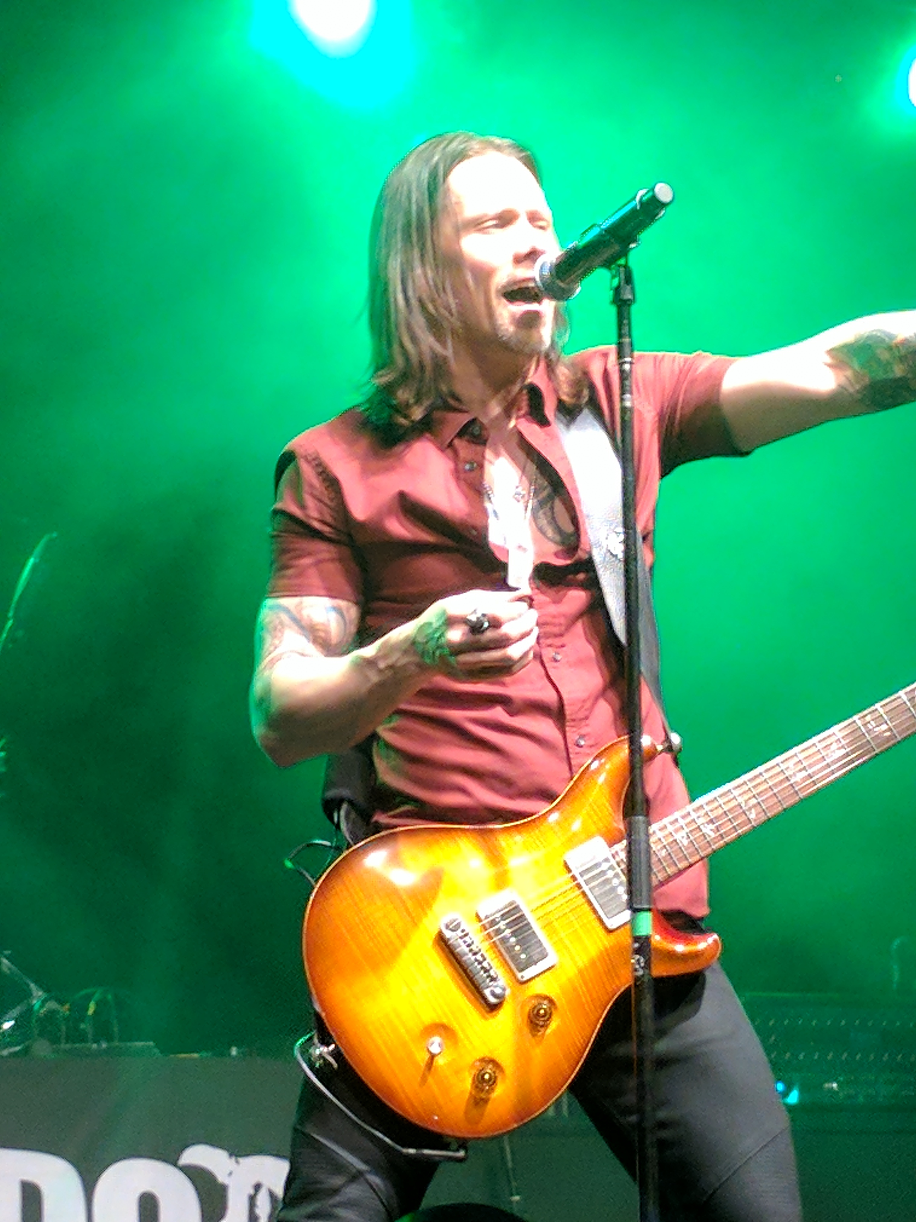 Miles Kennedy performing with Alter Bridge at the Rave in Milwaukee on May 17, 2017.